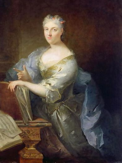 Portrait of the French opera singer Marie-Louise Desmatins (floruit 1670-1708)